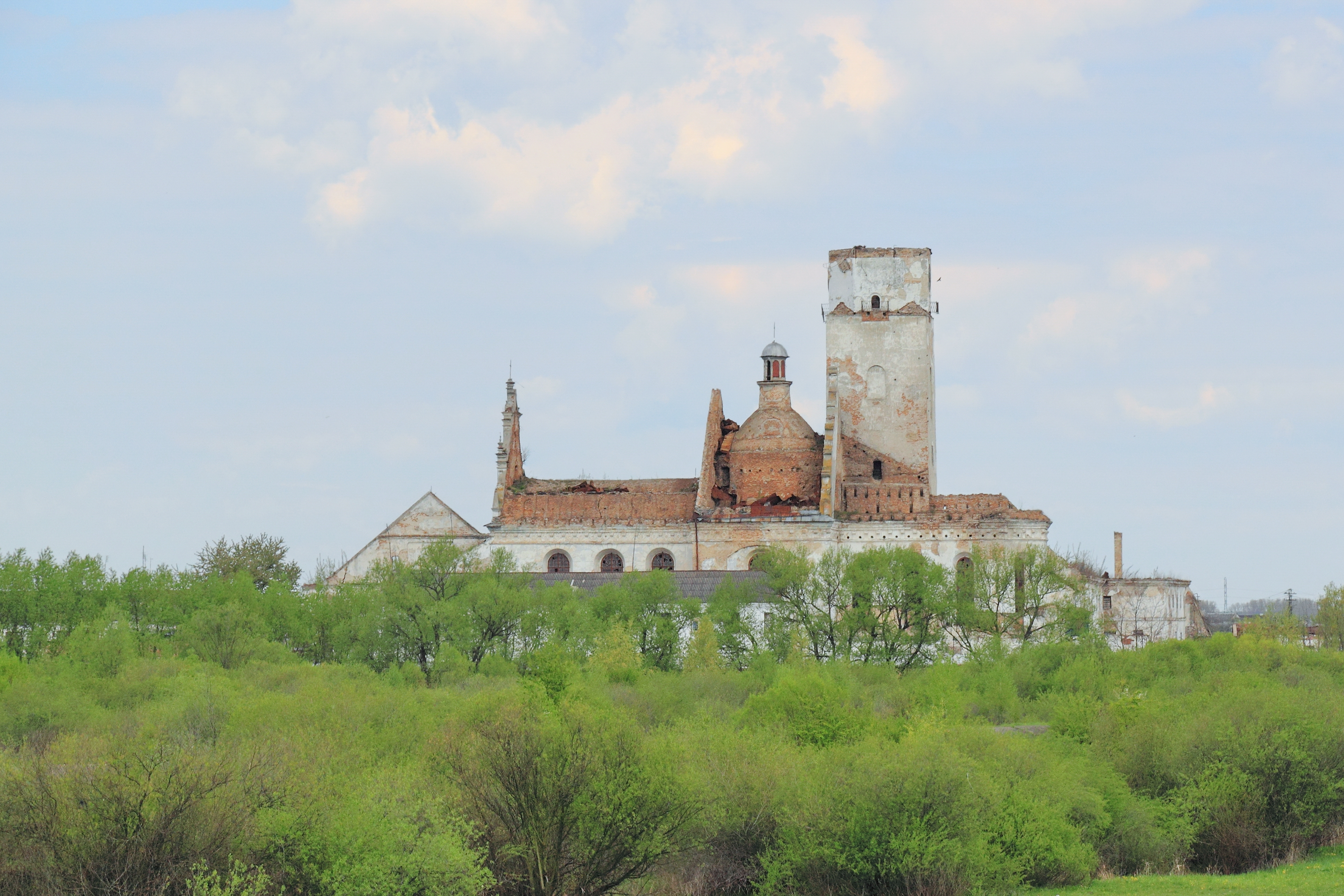 Bernardine Monastery. Sokal, Lviv Oblast, Ukraine.